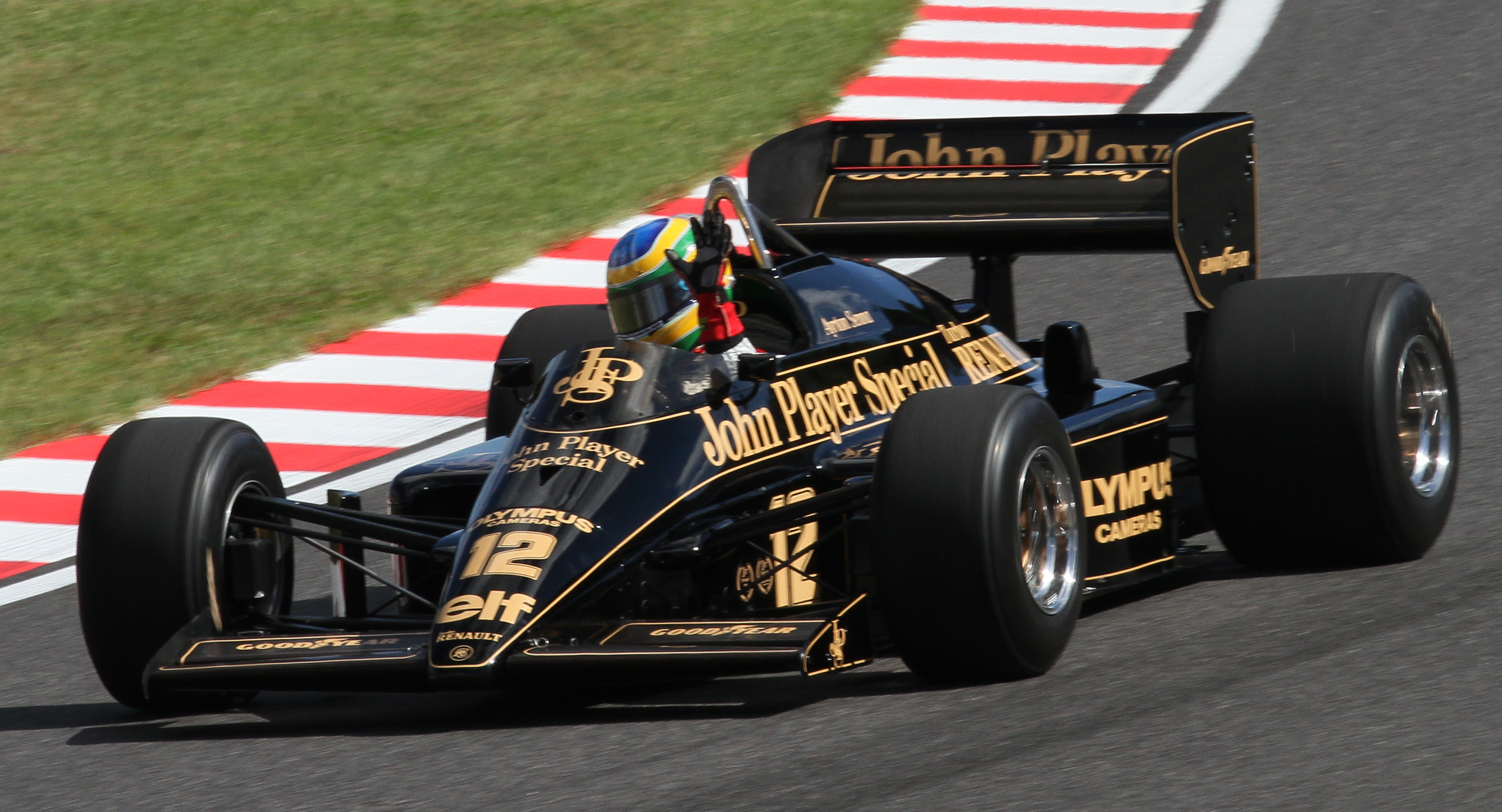 Formula One 2010 Rd.16 Japanese GP: Bruno Senna (Hispania) demonstrating Ayrton Senna's Lotus 97T.